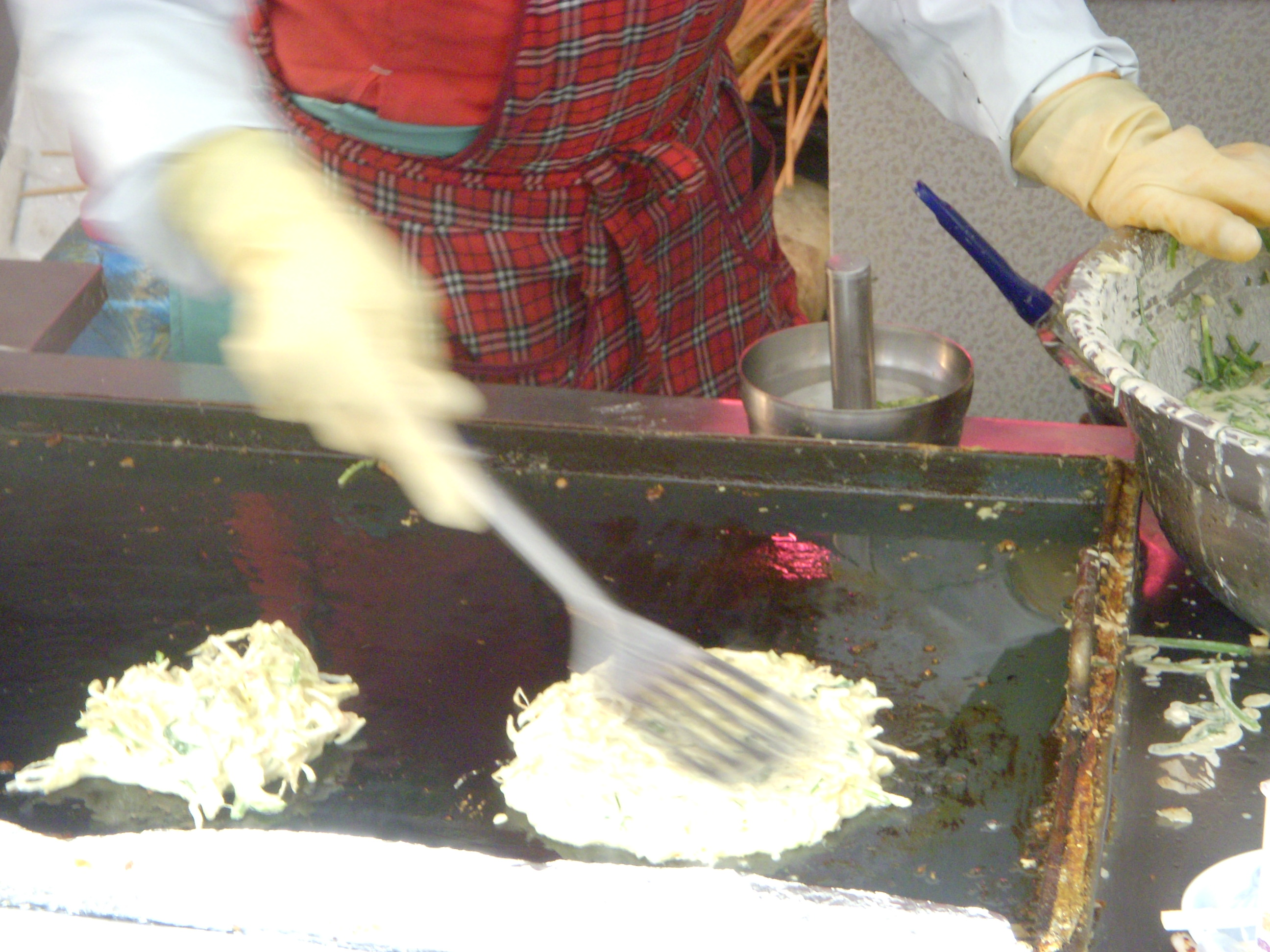 Pancakes are a ubiquitous snack made from a thin batter of flour, rice flour and water They can be filled with anything from kimchi to seafood.